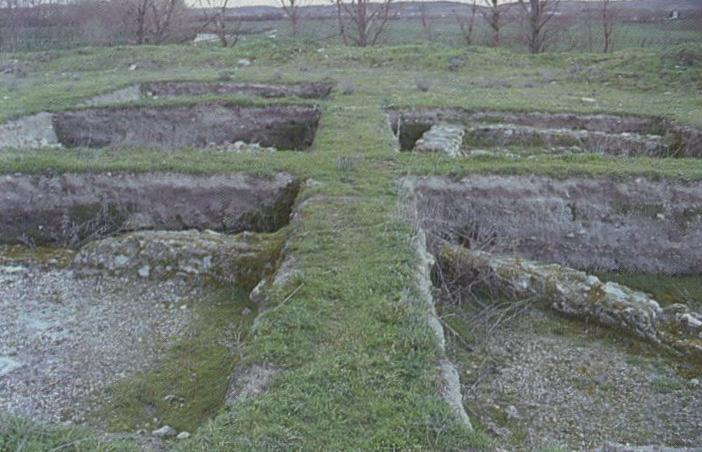 rest of a Roman villa of La Torrecilla, Getafe, (Madrid), Spain Author: Miguel303xm Date: January 14th, 2004 Place: La Torrecilla, Getafe, Madrid, Spain